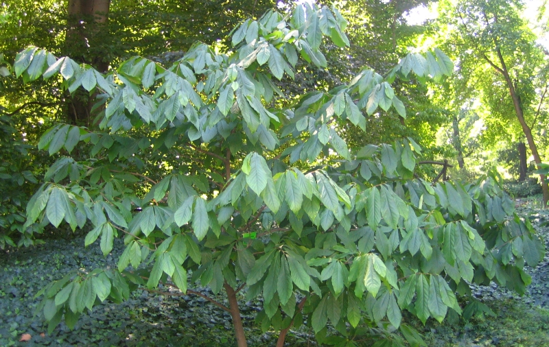 View of tree - Asimina triloba